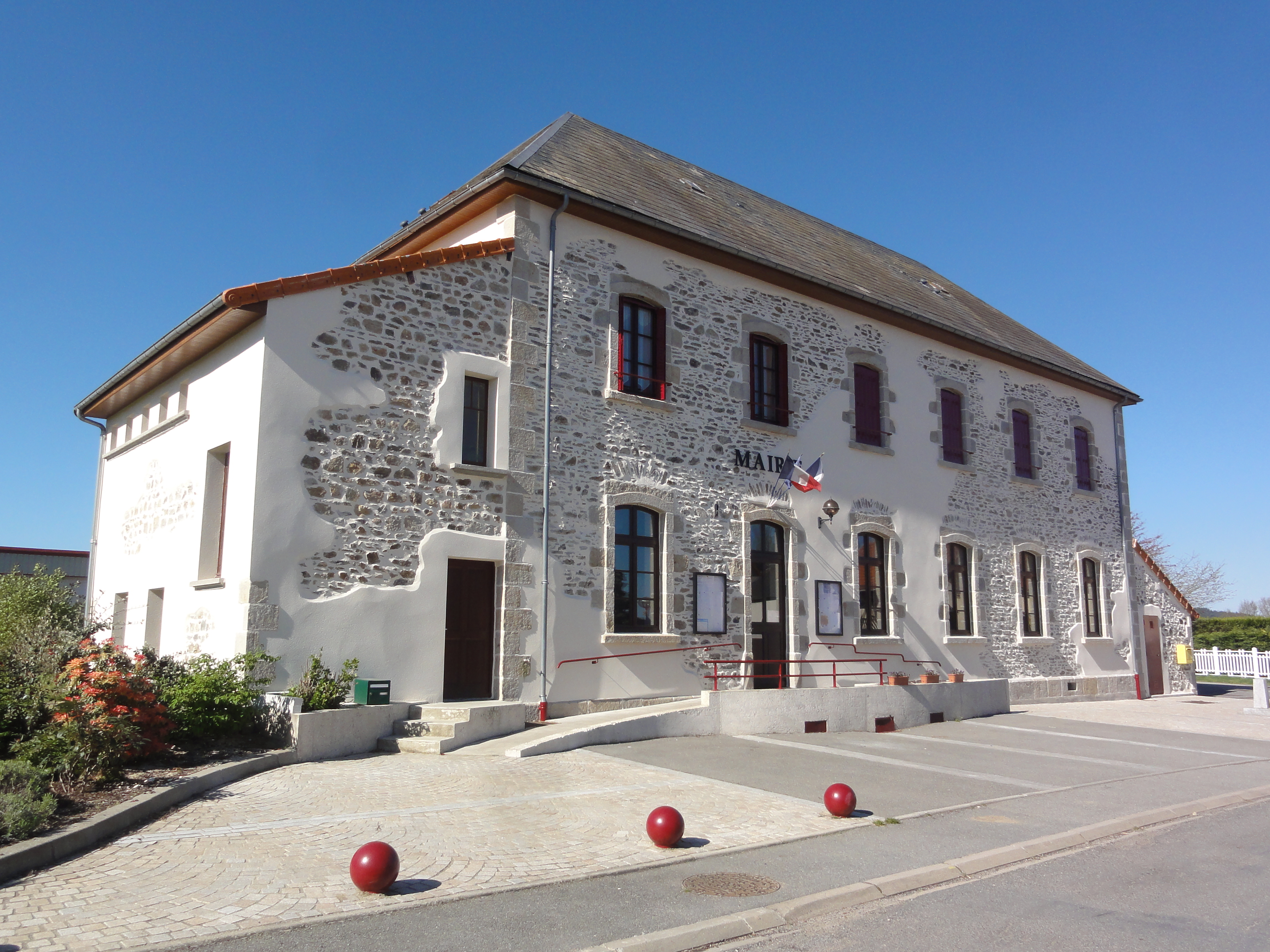 Teilhet (Puy-de-Dôme) mairie et ancienne école.